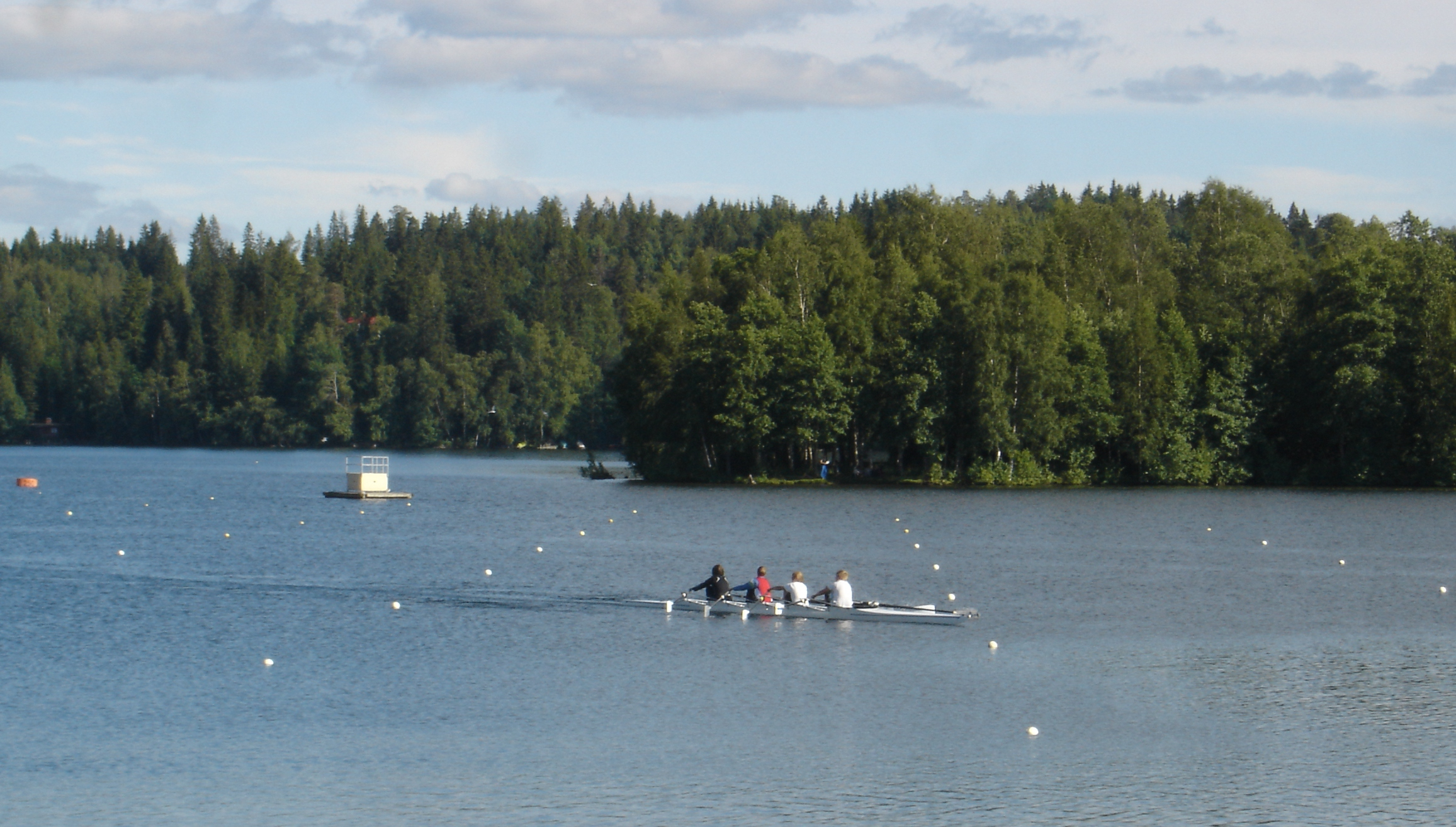 Kaukajärvi rowing stadium